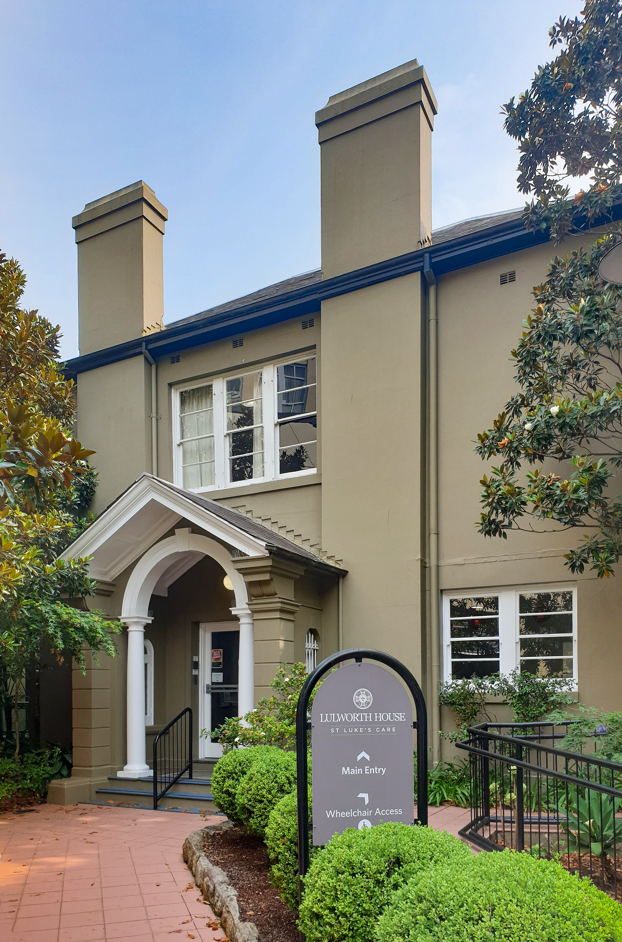 Lulworth, Elizabeth Bay, New South Wales, now part of St Luke's Private Hospital.